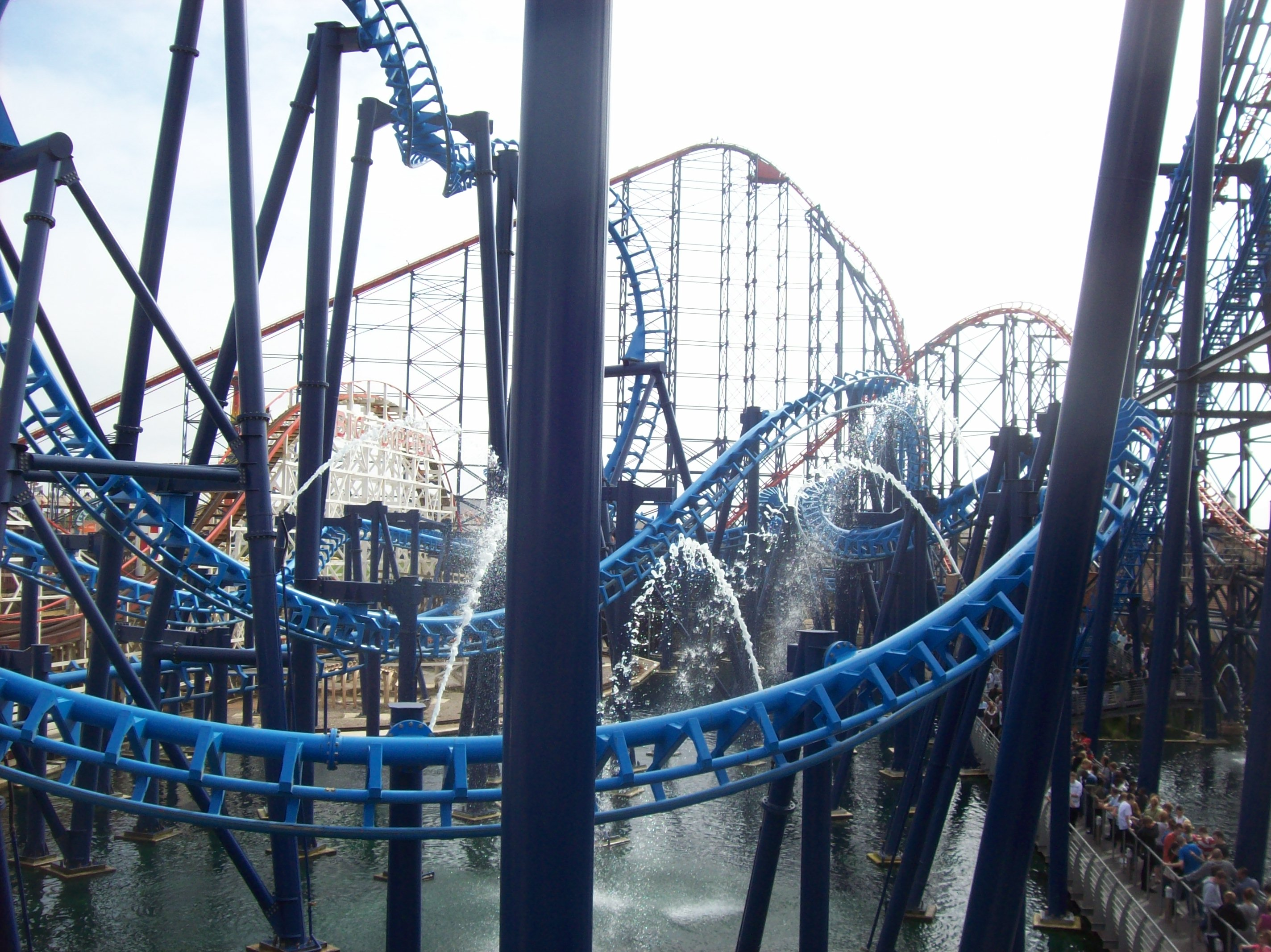 The Infusion rollercoaster at Blackpool Pleasure Beach